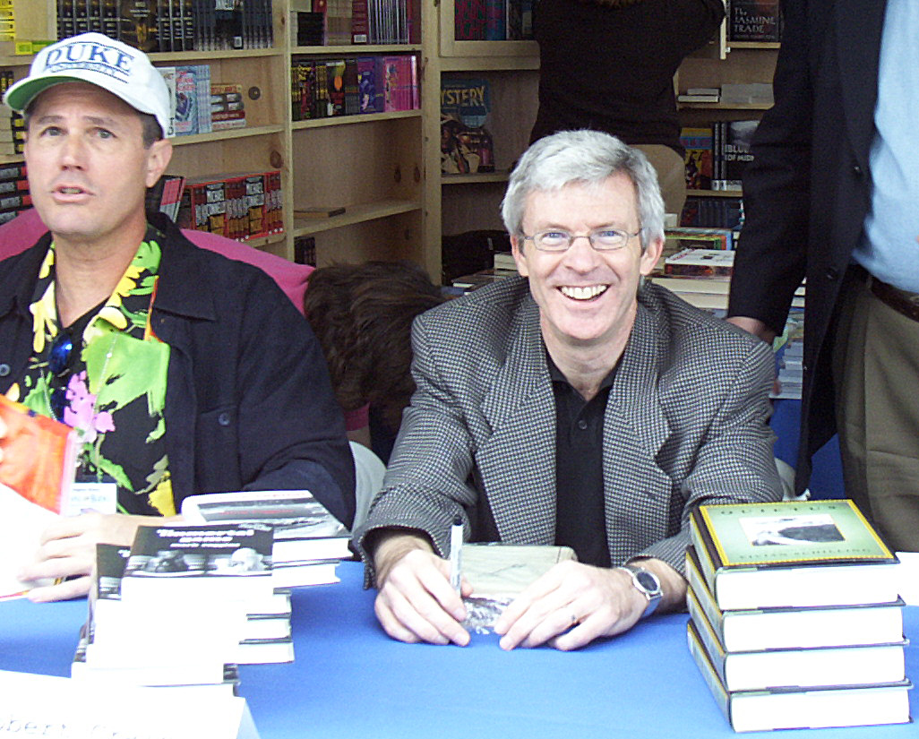 Robert Crais and Mark Coggins at the Mystery Bookstore booth at Los Angeles Times Festival of BooksCrais and Coggins